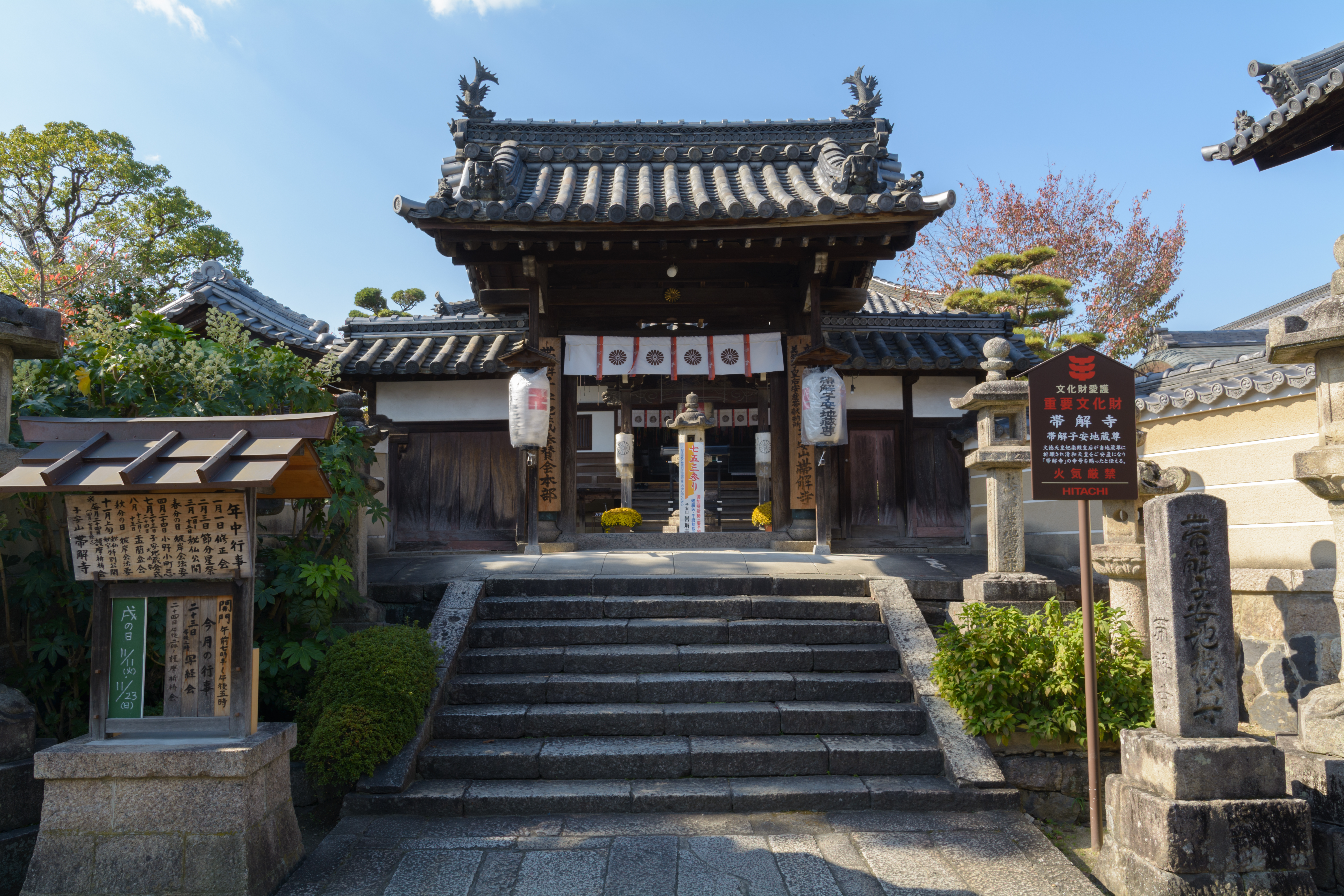 Obitoke-dera, in Nara, Nara Prefecture